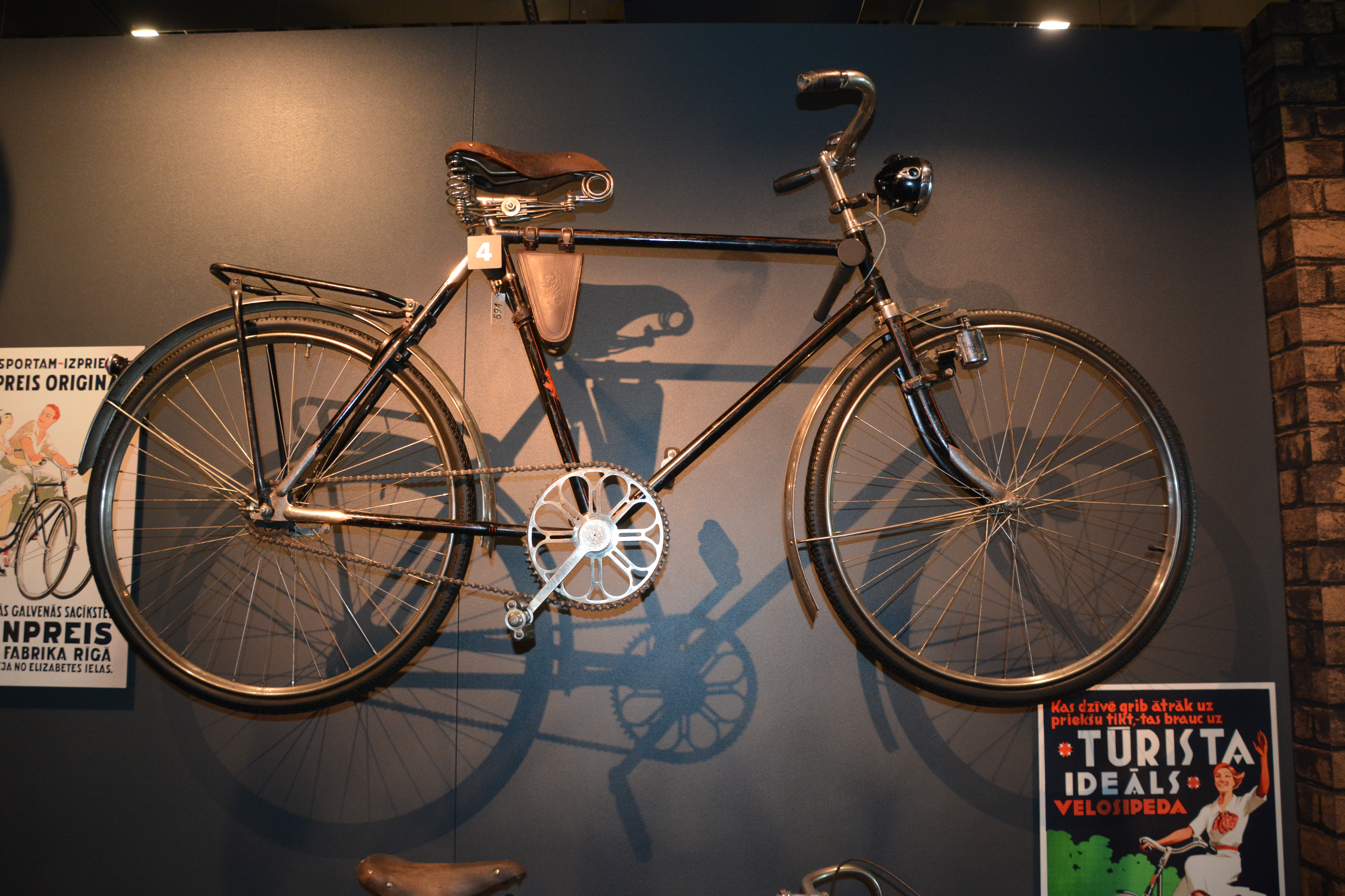 G Ehrenpreis bicycle 1935, Riga Riga Motor Museum